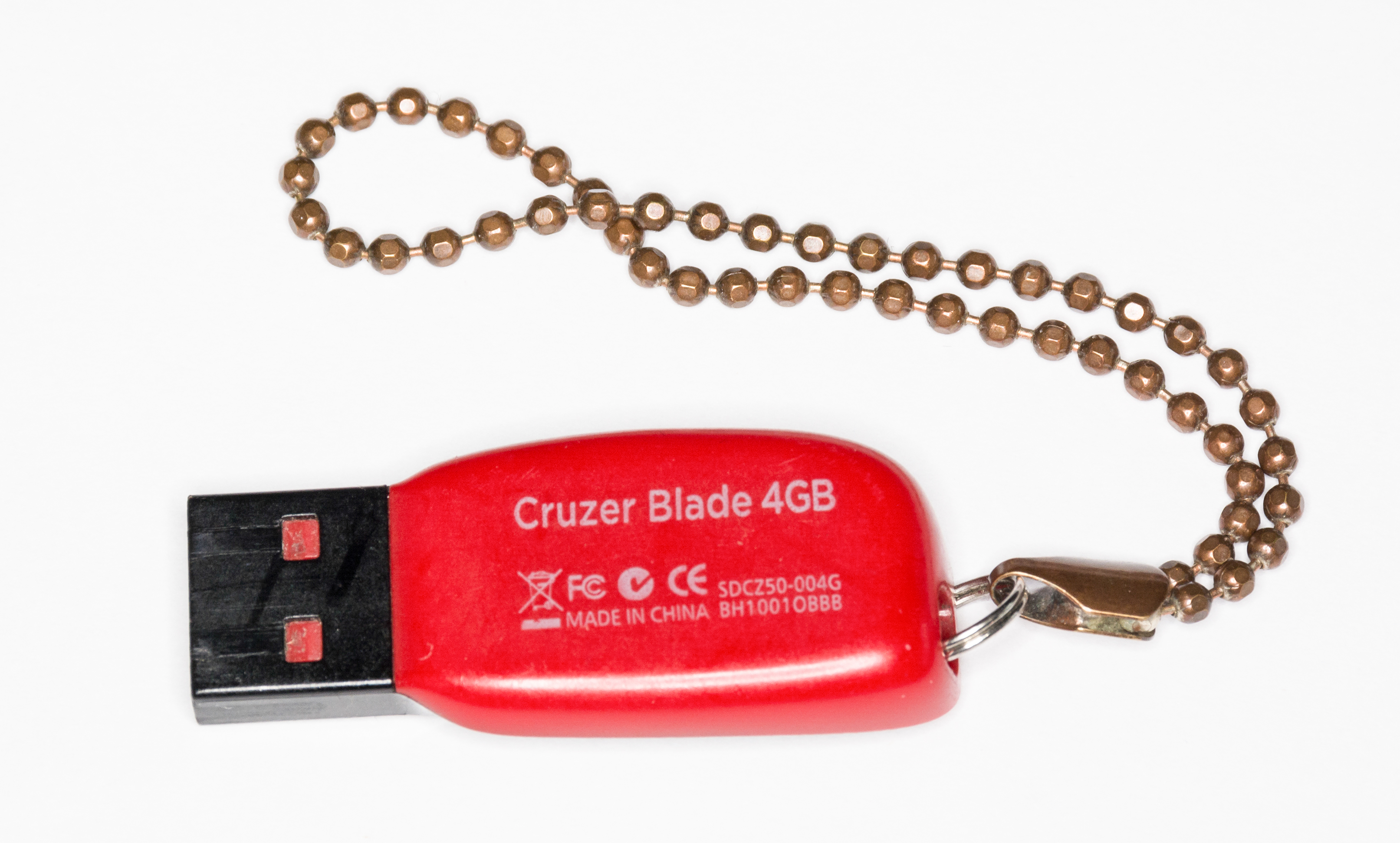 Pendrive SanDisk Cruser Blade 4GB